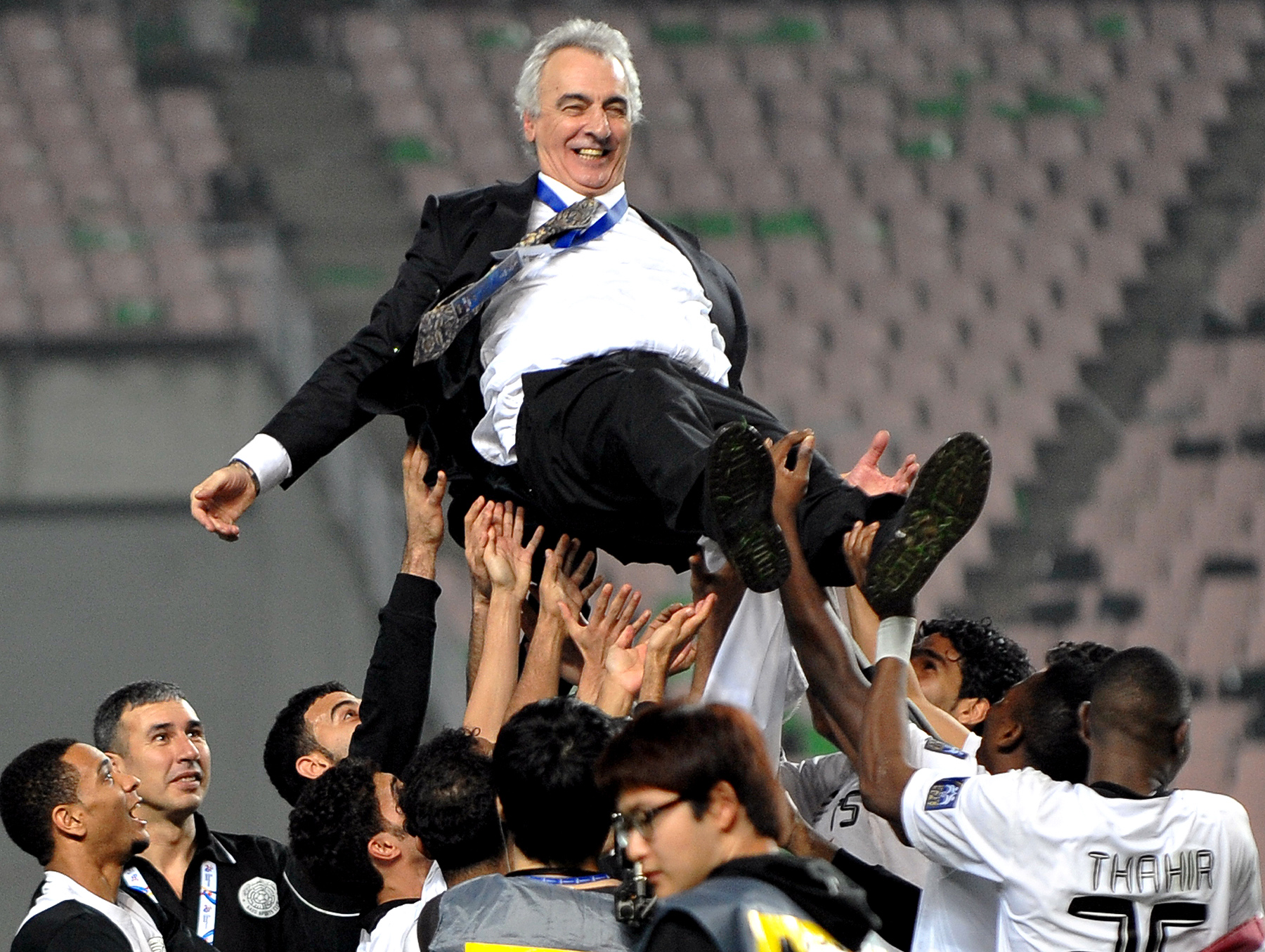 Members of the Al Sadd team throw coach Jorge Fossatti on the air as they celebrate their AFC CHampions League title win. Pic by Doha Stadium Plus